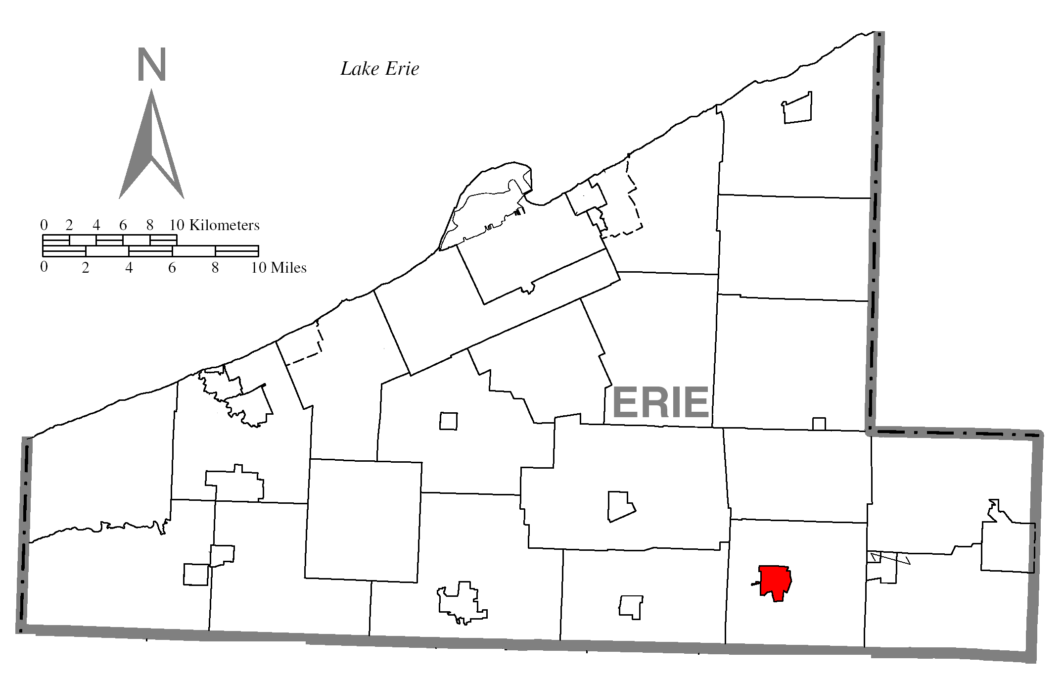 A map of Erie County showing Union City, Pennsylvania (alternate) highlighted on the map.